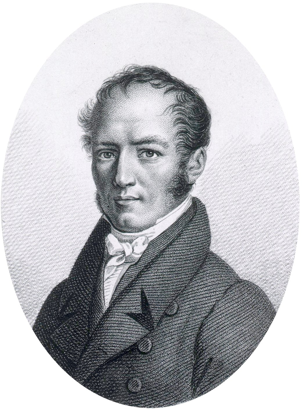 Piere Auguste Béclard. French physician and anatomist, (1785, Angers - 1825 Paris